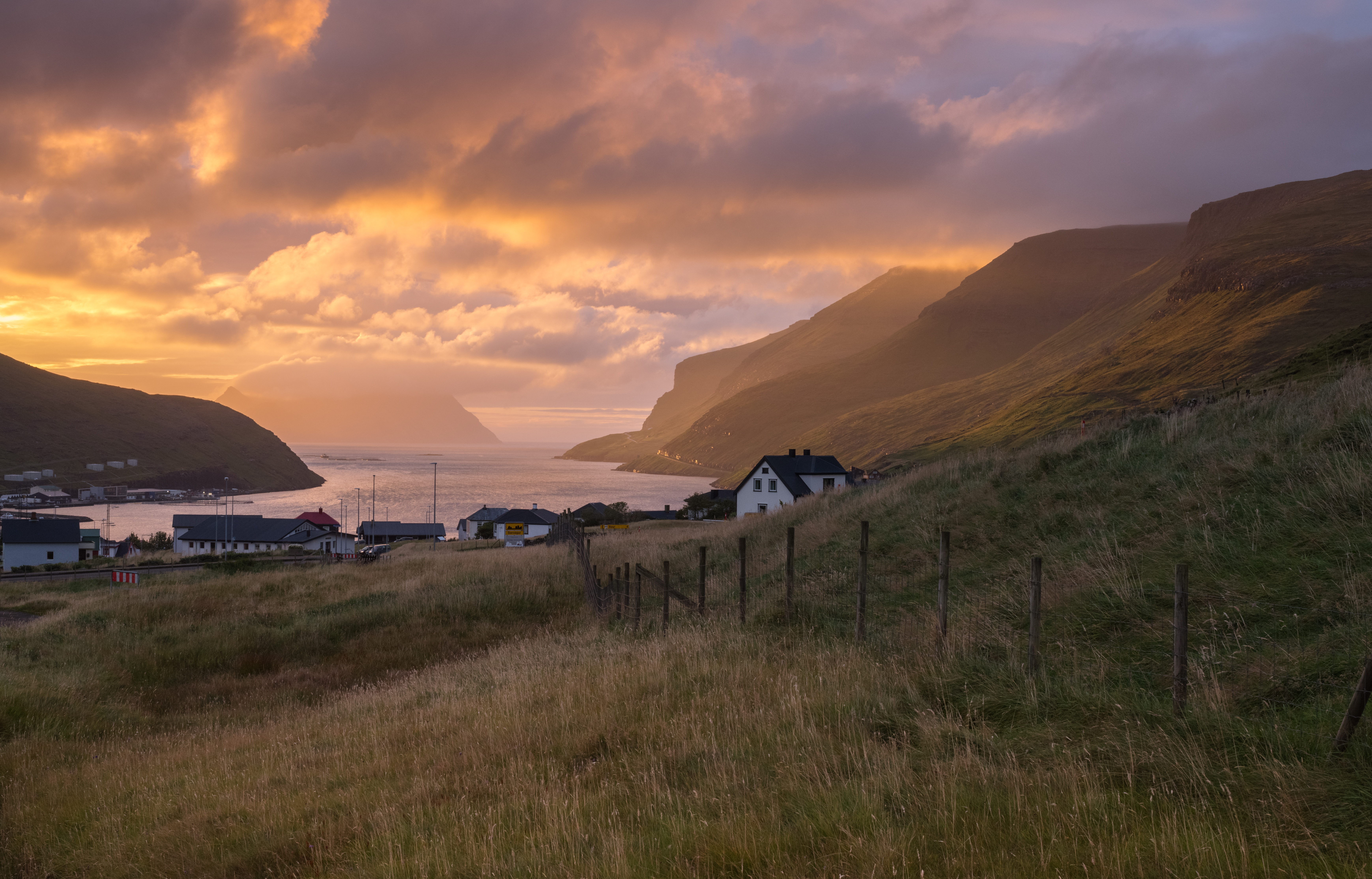 Sunset in Sørvágur (Danish: Sørvåg) is a village on the island of Vágar in the Faroe Islands. It is located at the landward end of Sørvágsfjørður. Sørvágur is the largest village in Sørvágur Municipality.